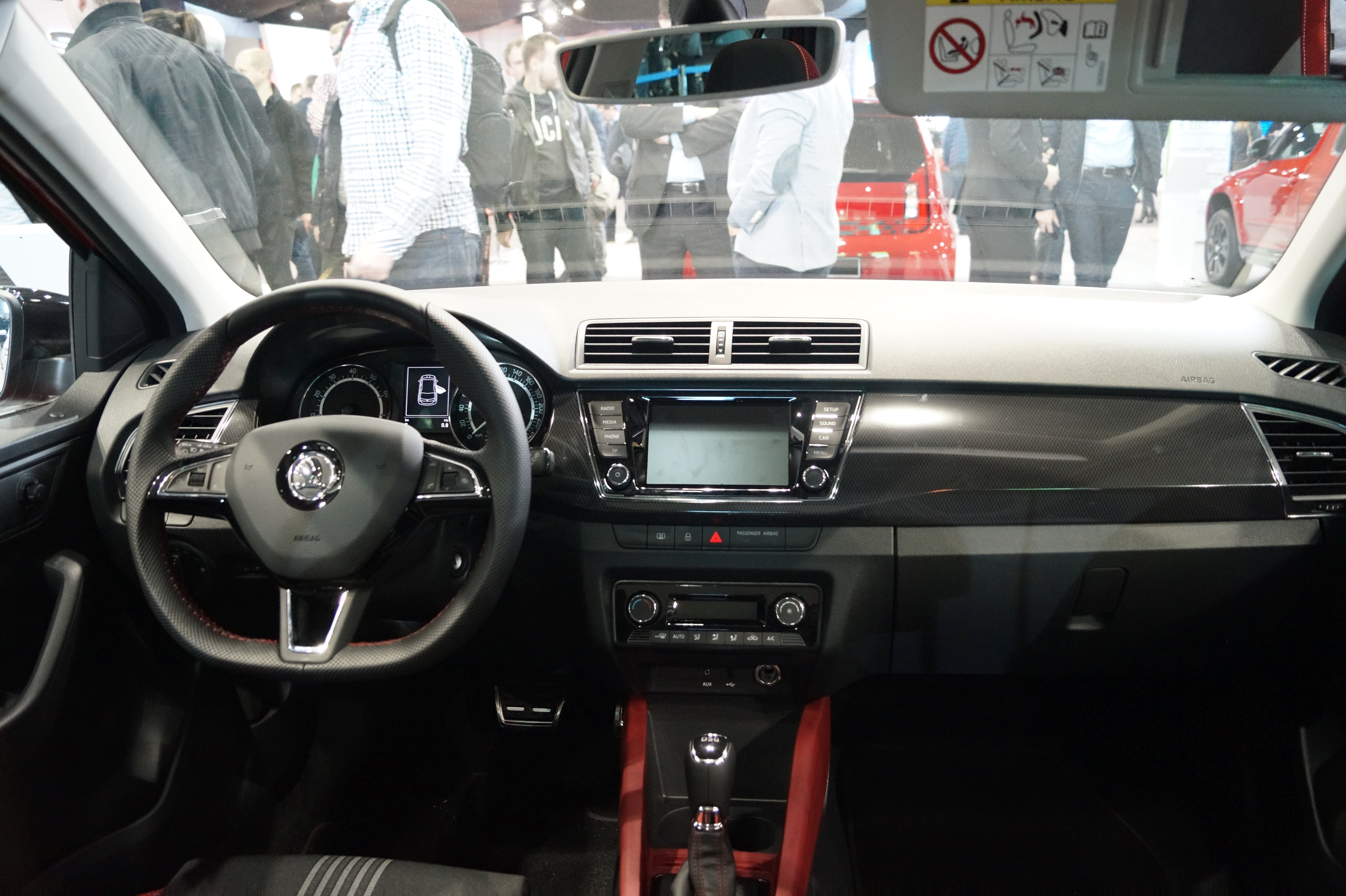 The making of this document was supported by Wikimedia Polska Association, within Wikigrant no. WG 2016-10. Wnętrze Škody Fabii na Motor Show Poznań 2016